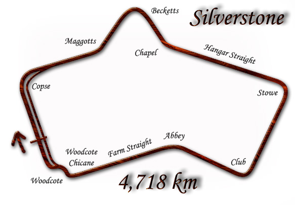 Diagram of the Silverstone Circuit following changes made in 1974. Used for Britsh Grands Prix from 1975 to 1985.